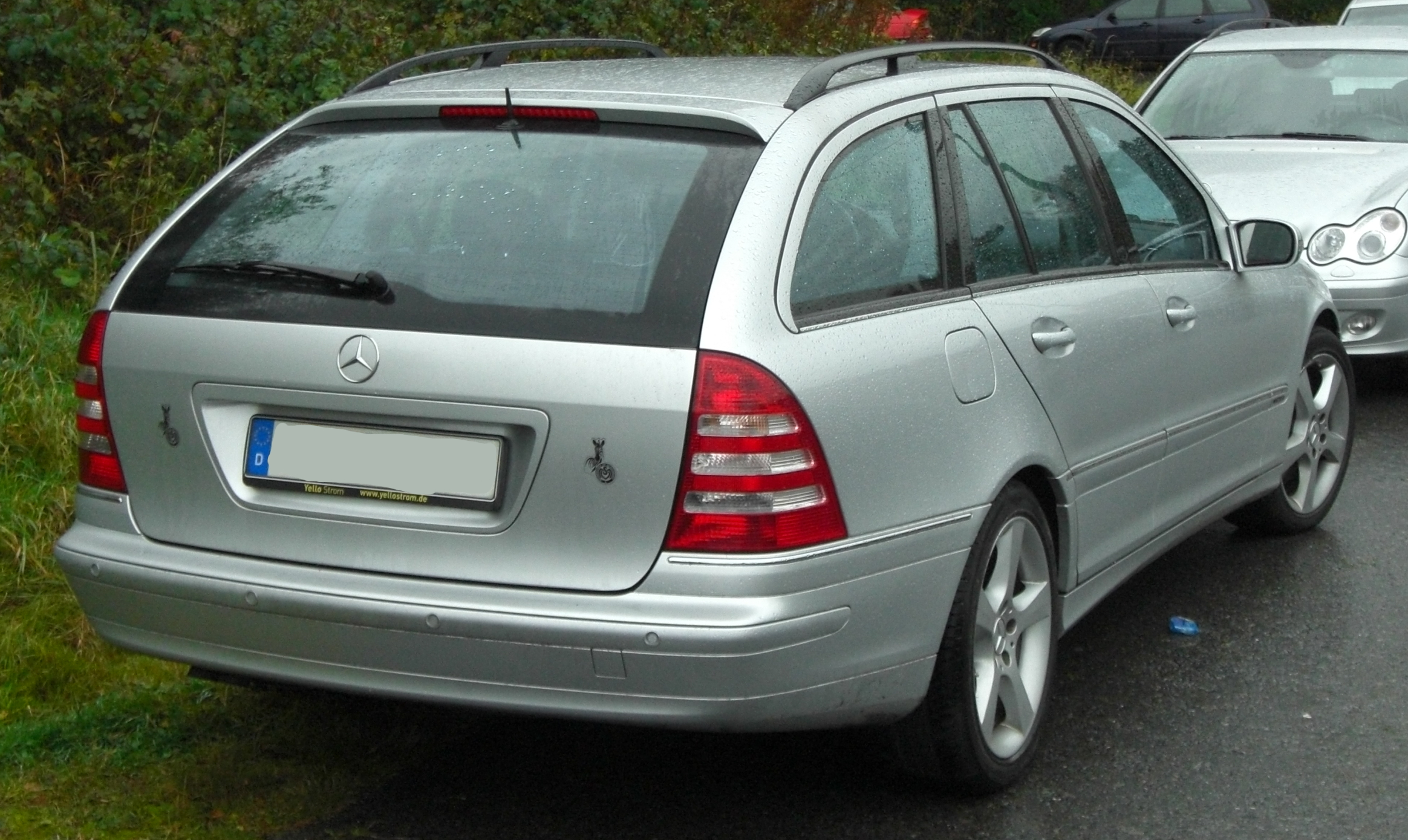 Description: Mercedes C-Klasse T-Modell Facelift Avantgarde Source: Matthias Other Version(s)